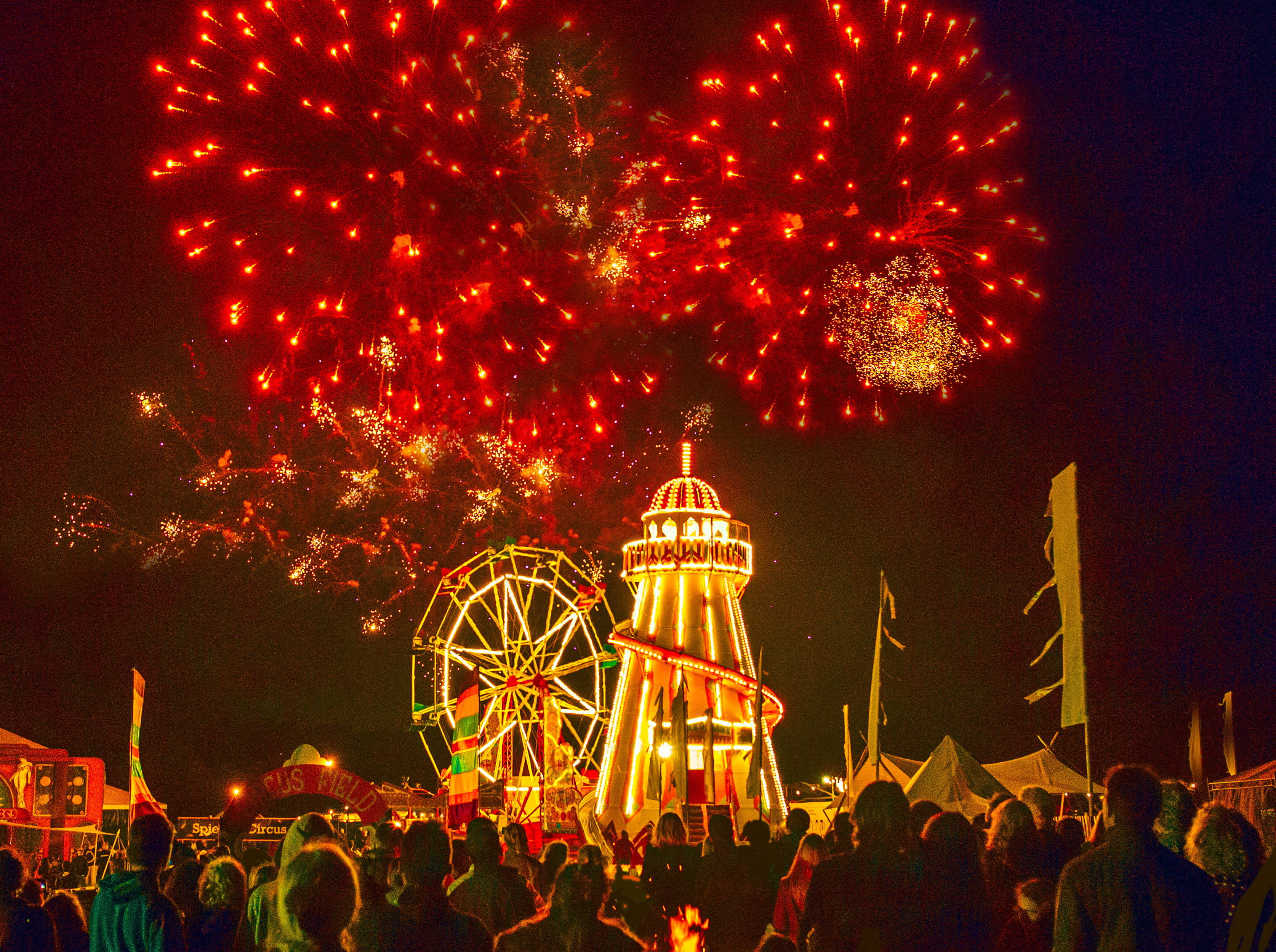 HowTheLightGetsIn Firework Display